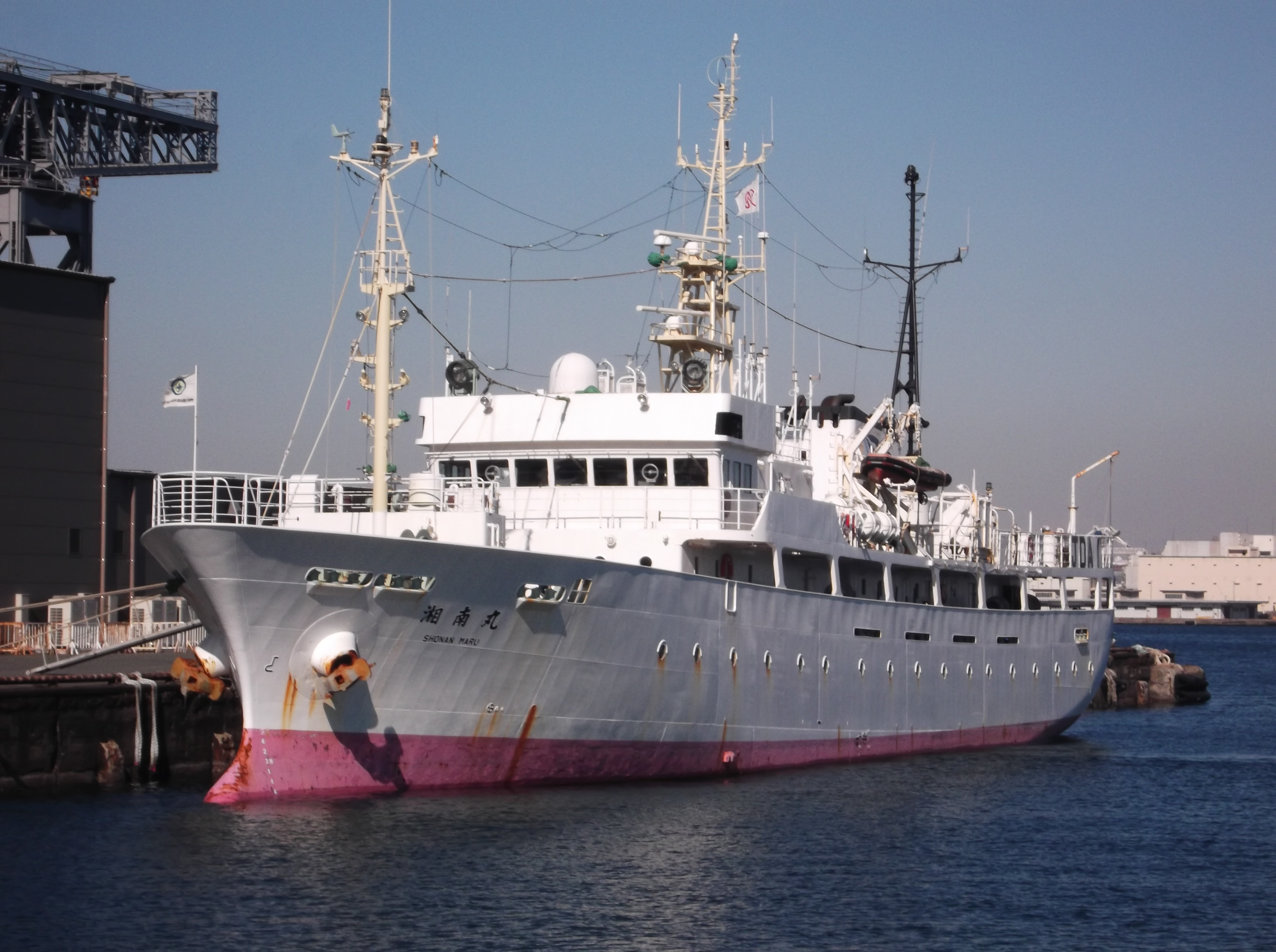 Shonan Maru (Syonan-maru), a training ship of Kanagawa Prefectural Marine Science High School, at the Shinko Pier of Yokohama Port